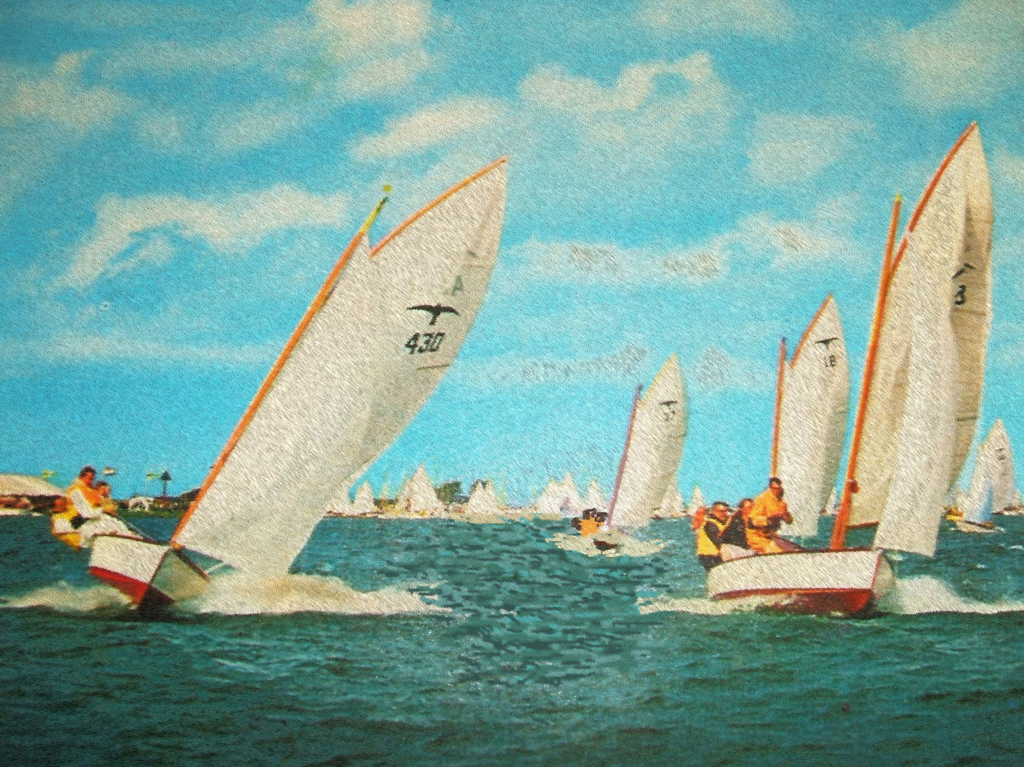 Friesland, Sneekweek in the seventies. I raced a dinghy there a few times. Autumn is a good time for sailing as the winds usually blow, they sure do here in alberta we;re having an early fall with lots of wind, rain, and already frost and yellow leaves...